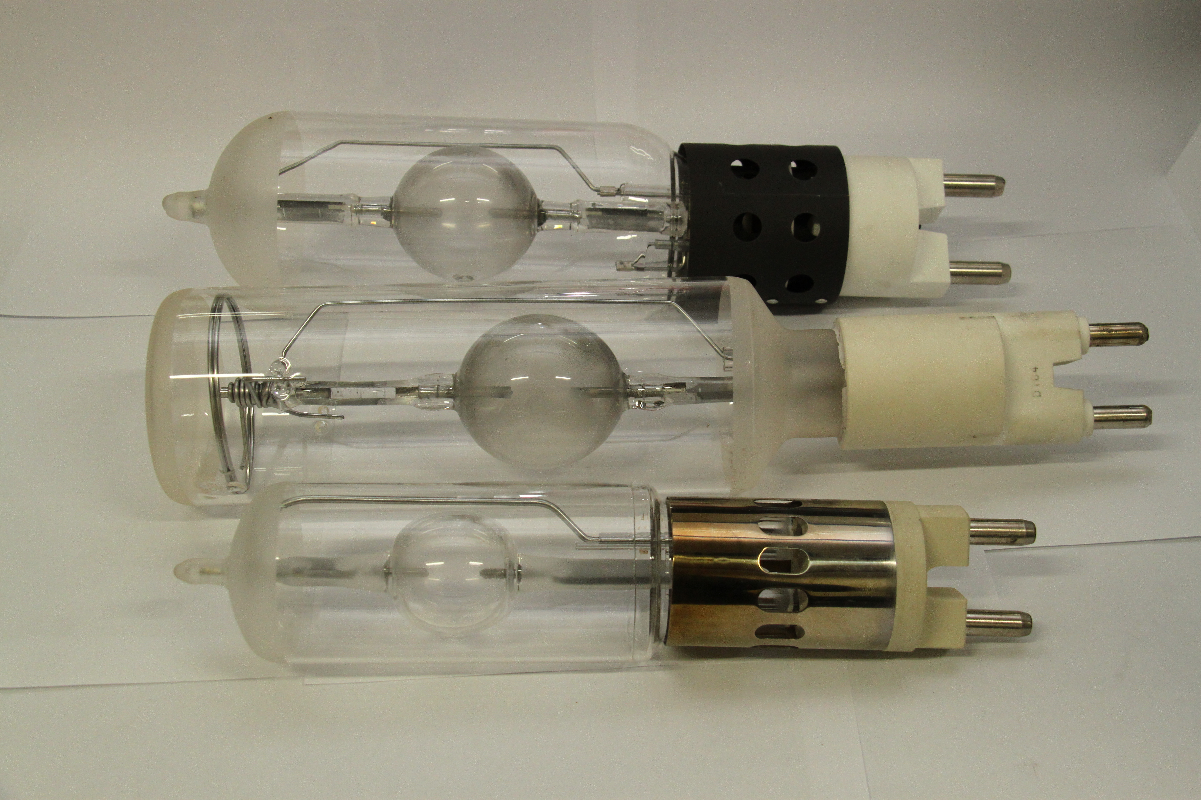 HMI lamps (Hydrargyrum medium-arc iodide lamps) 12 kW (Osram) et 18 kW (Philips and General Elecric) , single-ended.